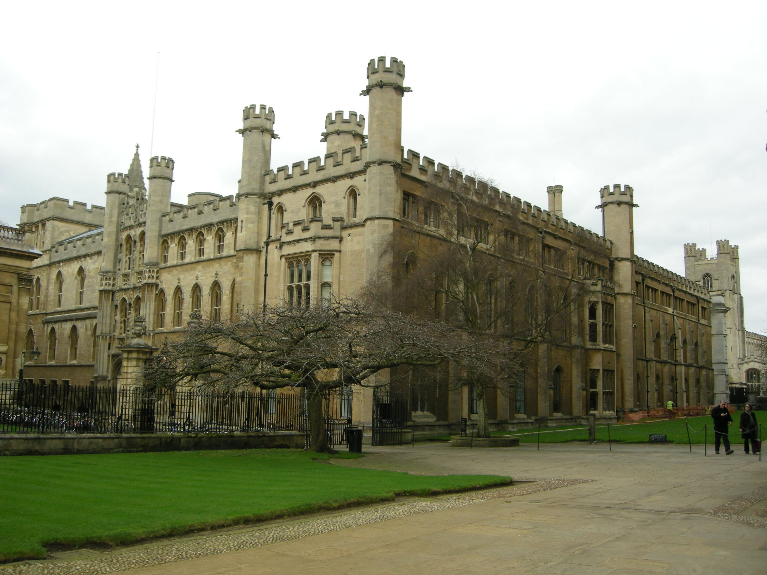 Old Schools, Cambridge